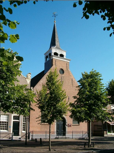 The churchbuilding in the center of the town of Balk, called It Breahûs